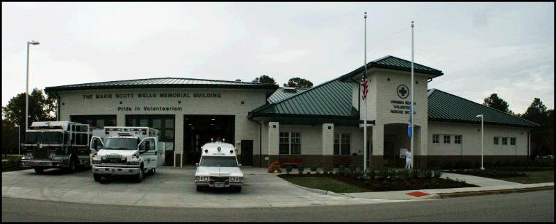 The front entrance to our rescue squad building located off of Old Donation Parkway.